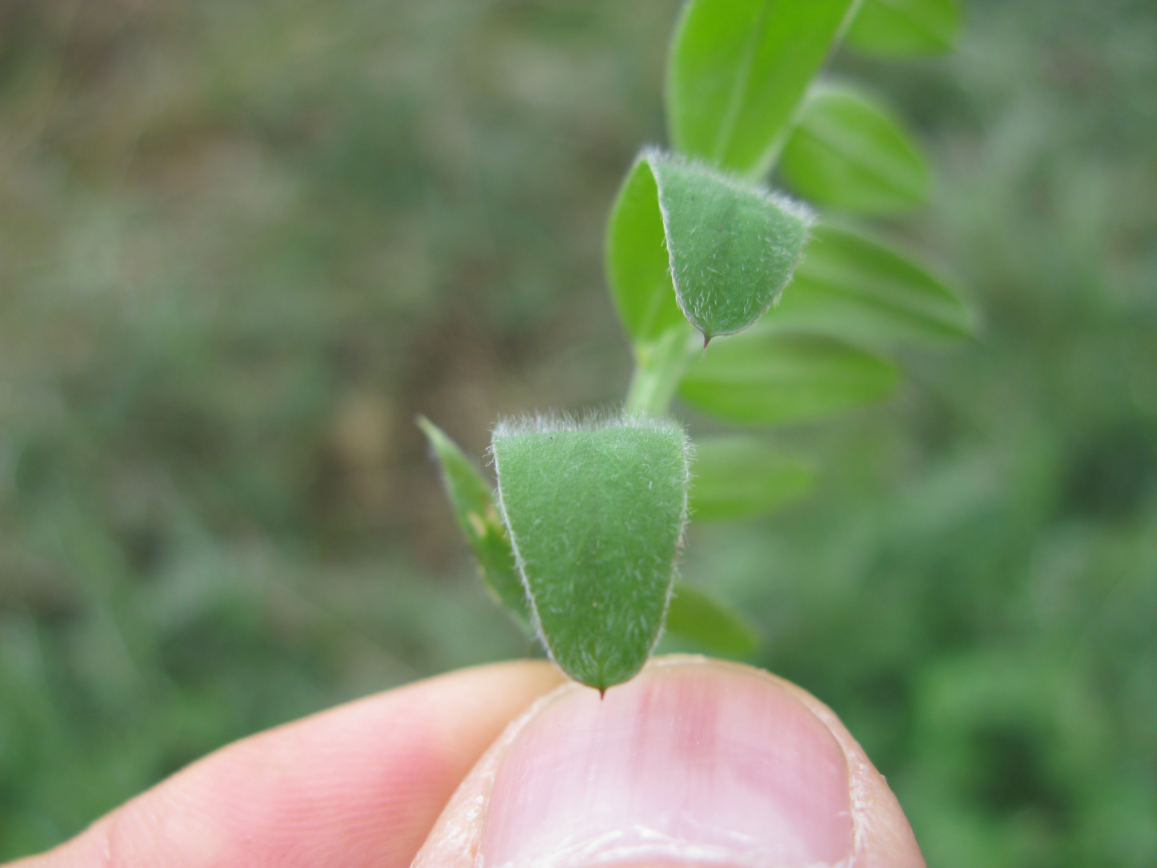 Introduced, cool-season, annual, hairy, trailing or climbing legume. Leaves are pinnate (12-16 leaflets) and end in tendrils. Flowerheads are racemes of 3-40 violet-blue pealike flowers (sometimes with white or yellow wings). Brown bean-like pods grow to 4 cm long. Flowering is in winter and spring. A native of Europe, it is occasionally sown for winter and spring feed; more so when developing new country. Requires well-drained soils, with low exchangeable aluminium levels and at least moderate fertility. Provides a high protein, high digestibility and low bloat-risk forage over the autumn to spring period; winter growth is generally poor, but spring growth is strong. Has poor palatability, especially when young. It can take several days for cattle to become accustomed to it, but then they readily eat it. Occasionally causes vetch toxicoses in cattle, leading to ill thrift and possibly death; rare in hay and silage. Do not graze before young plants have branched. It is important to build the seedbank in the first year; stock lightly or leave ungrazed from flowering onwards to maximise seed set. More tolerant of cattle than sheep; persists best under less intense grazing systems.